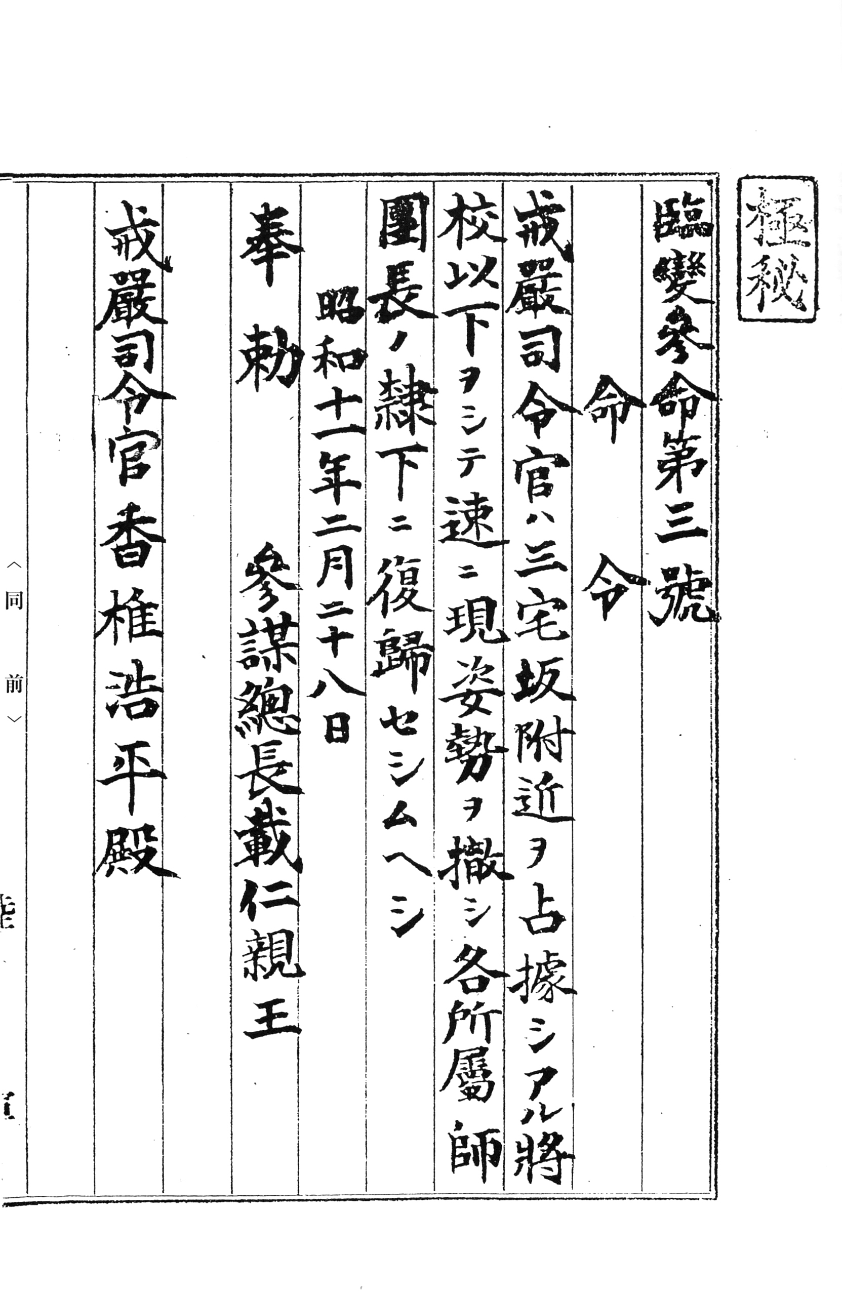 Order officially informing Kashii Kohei of the imperial command to remove the rebel troops during the 2/26 Incident.